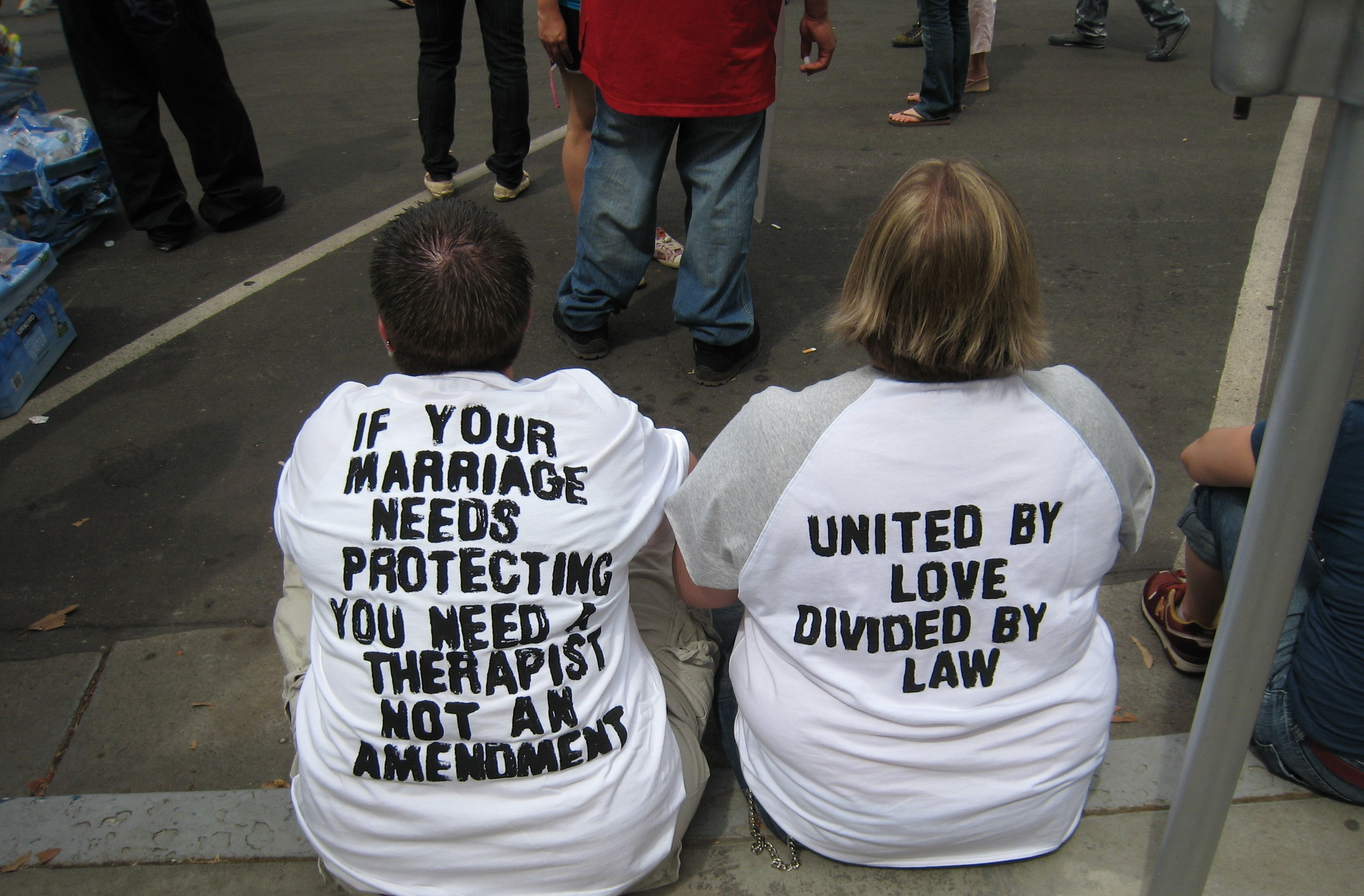 30 May 2009, Fresno, California, USA. "Meet in the Middle for Equality", anti-Prop 8 demonstration. T-shirt reads: "If your marriage needs protecting you need a therapist not an amendment"